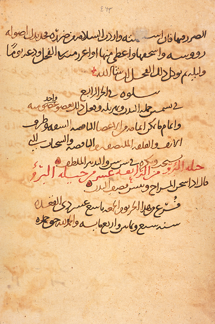 The final page of the Hawi by al-Rāzī (Rhazes), with the colophon in which the unnamed scribe gives the date he completed the copy as Friday, the 19th of Dhu al-Qa‘dah in the year 487 [= 30 November 1094]. It is the oldest volume in the US National Library of Medicine and the third oldest Arabic medical manuscript known to be preserved today (according to NLM)